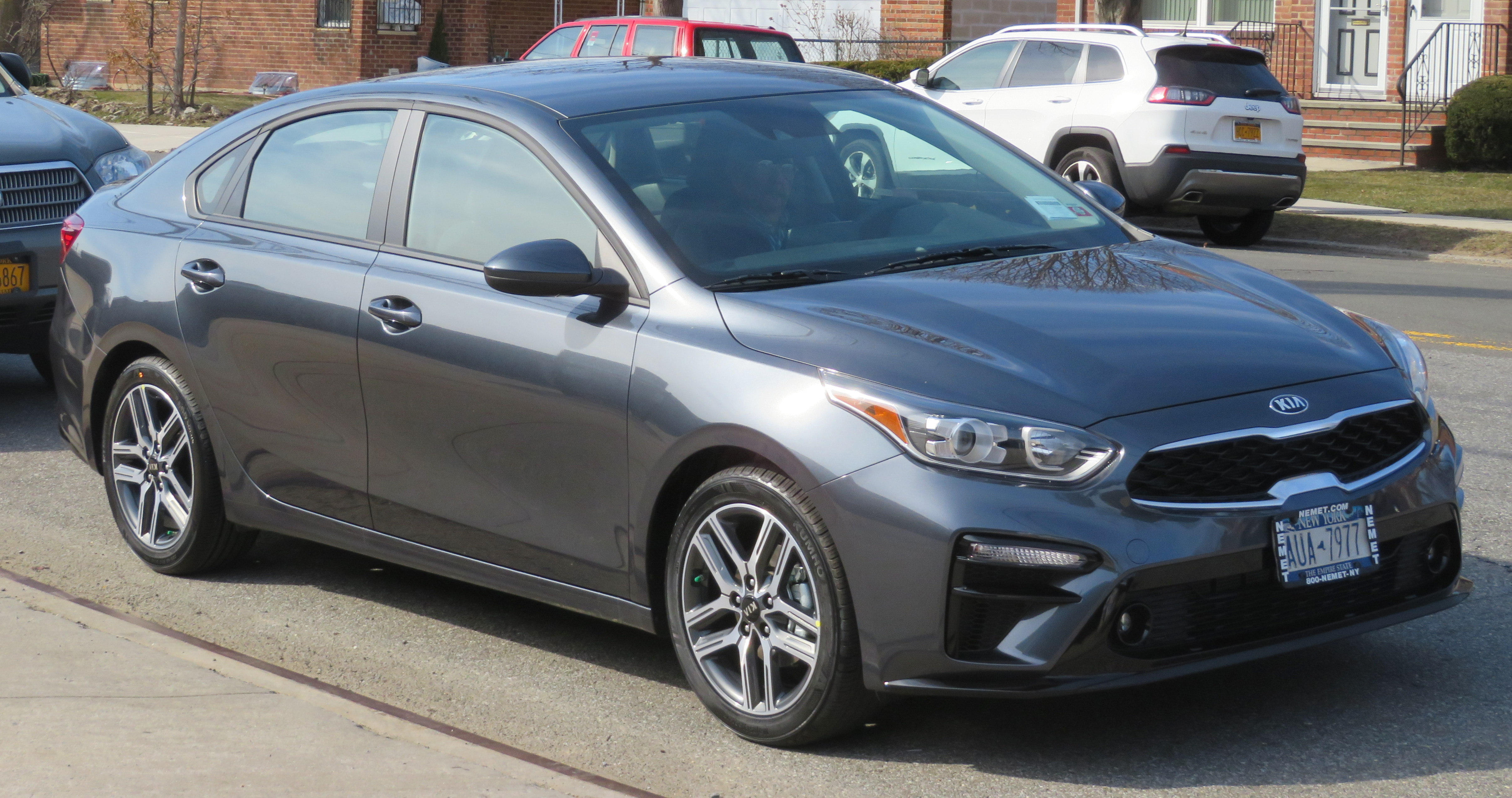 A 2019 Kia Forte S photographed in Queens, New York, USA